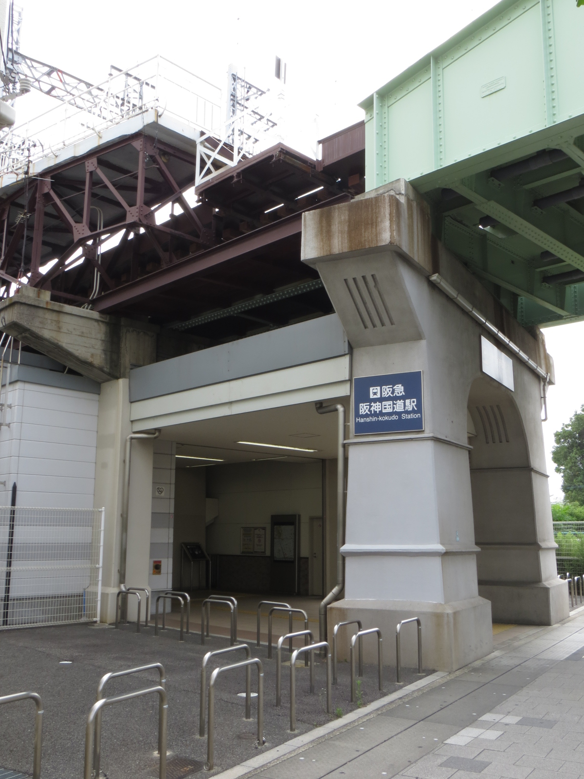 Entrance from Hanshin-kokudo Station(HK-22).